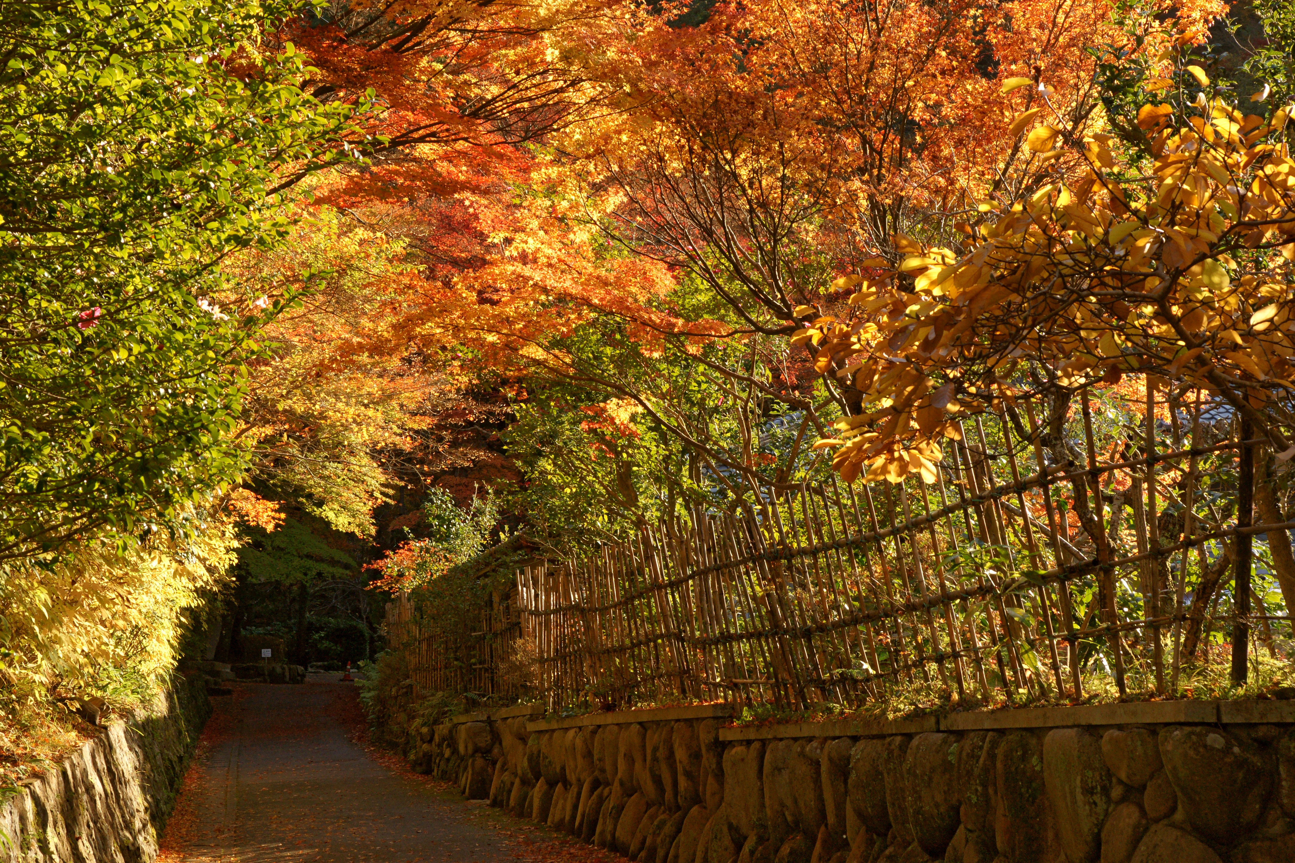 Tudumi-ga-taki Park in Arima onsen, Kobe, Hyogo prefecture, Japan